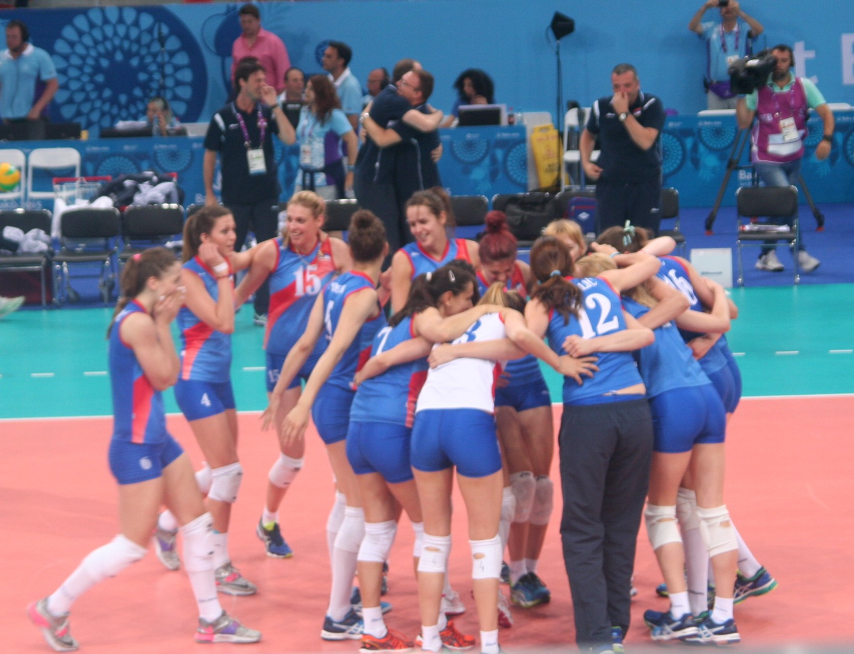 Bronze match between Azerbaijan and Serbia at the 2015 European Games women's volleyball